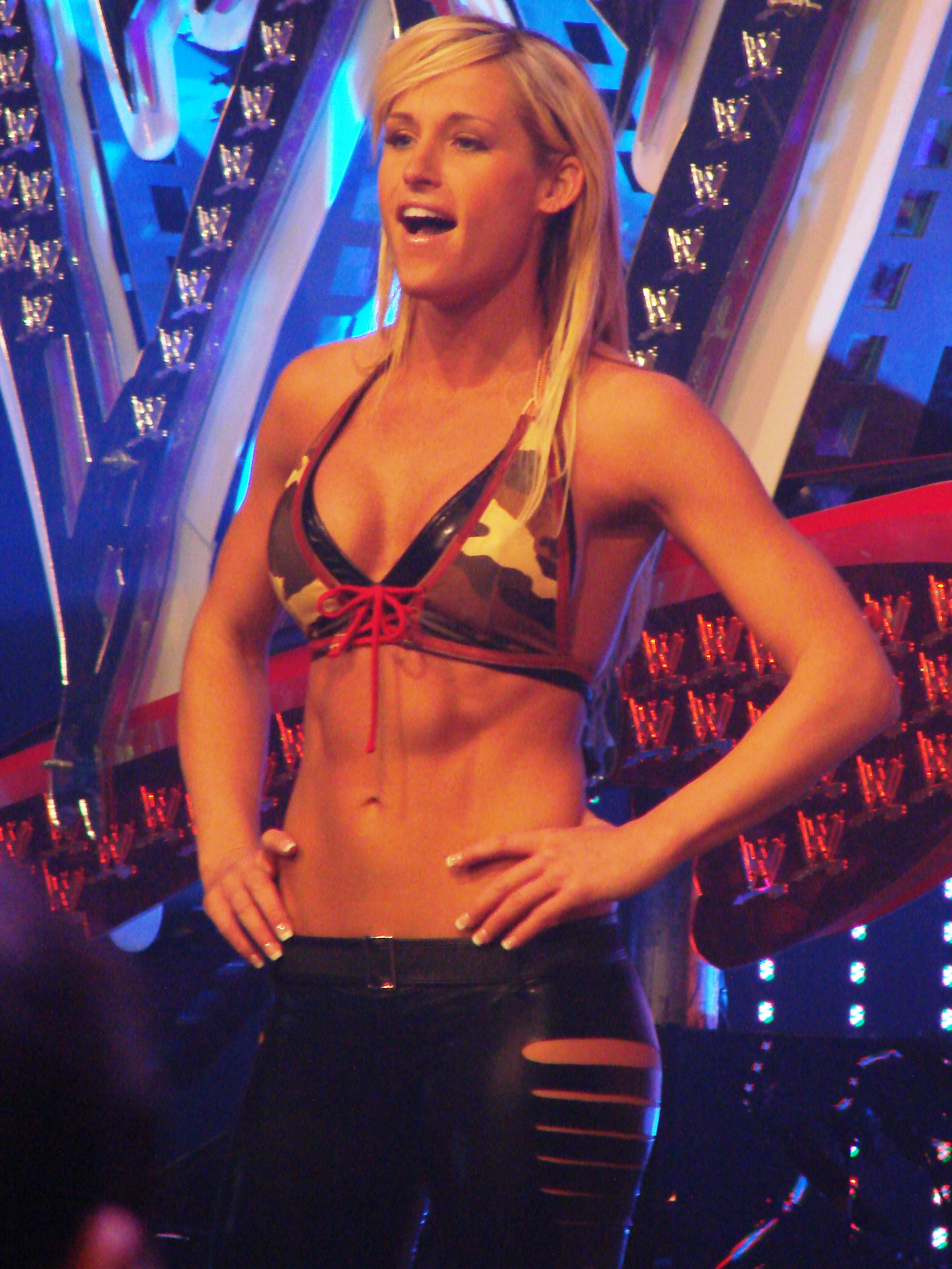 Michelle McCool at WWE SmackDown. Allstate Arena, Rosemont IL. Taken by myself, rotated, cropped, and brightened.